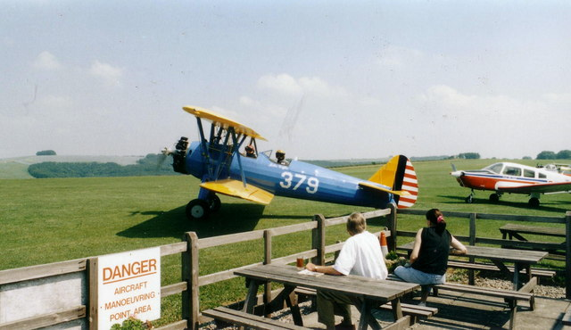 Compton Abbas airfield